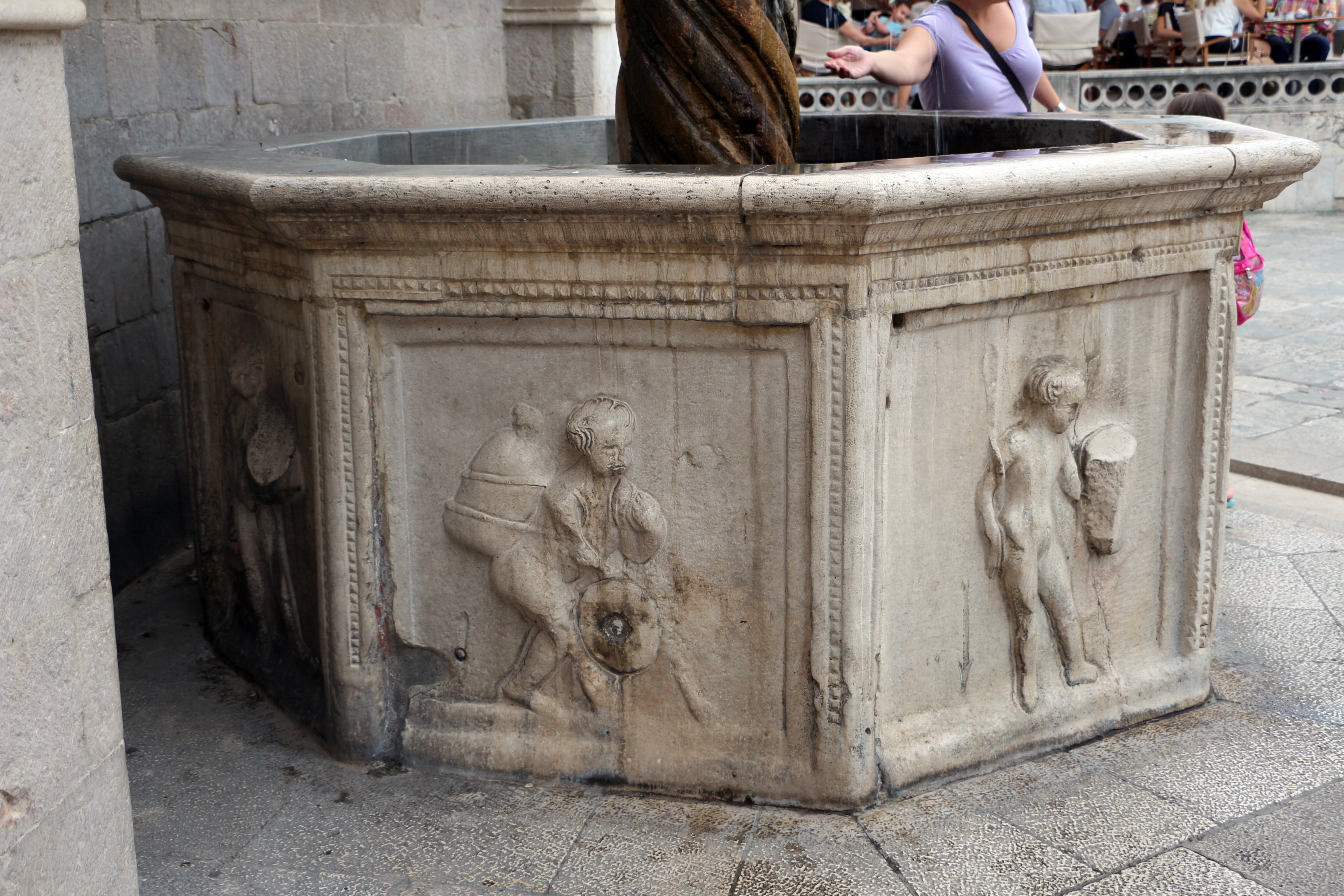 Fountains in Dubrovnik